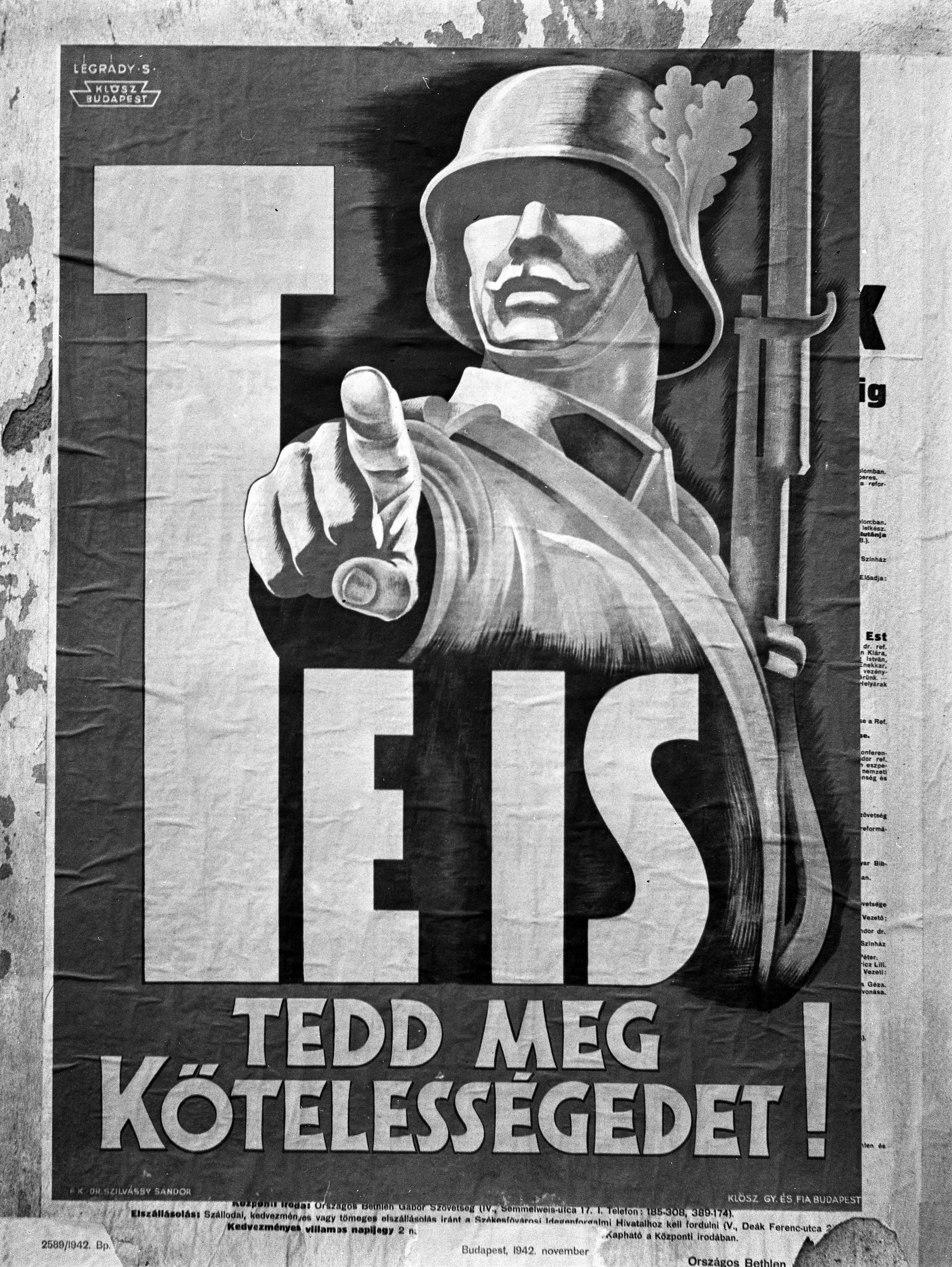 Location: Hungary, Budapest Tags: poster, soldier, Sándor Légrády-graphics